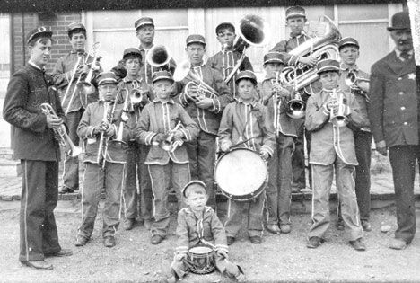 This Como band from about 1900 and others like it entertained at Fourth of July parades and other events in Como’s early years. (Photo courtesy Park County Local History Archives, source: Robert Craig)